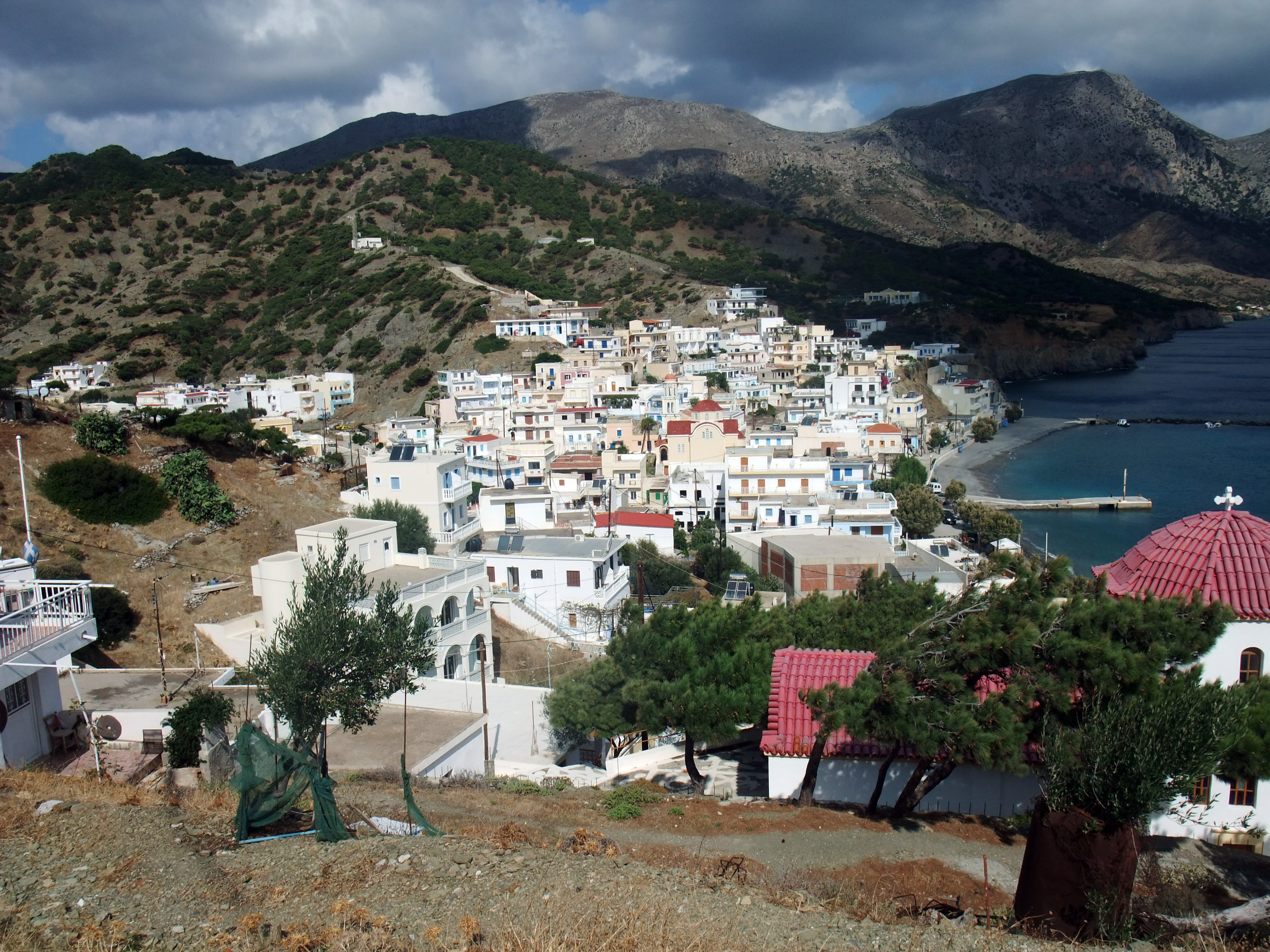 Diafáni (village view), Karpathos, Greek Dodecanese islands